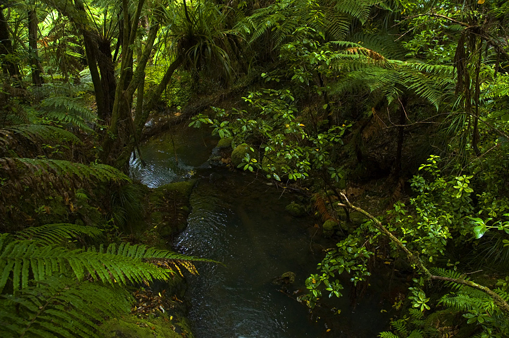 Rain forest, interior of the Coromandel Peninsula (18 January 2005.) Photograph by James Shook, who retains copyright and releases the image under the license shown.